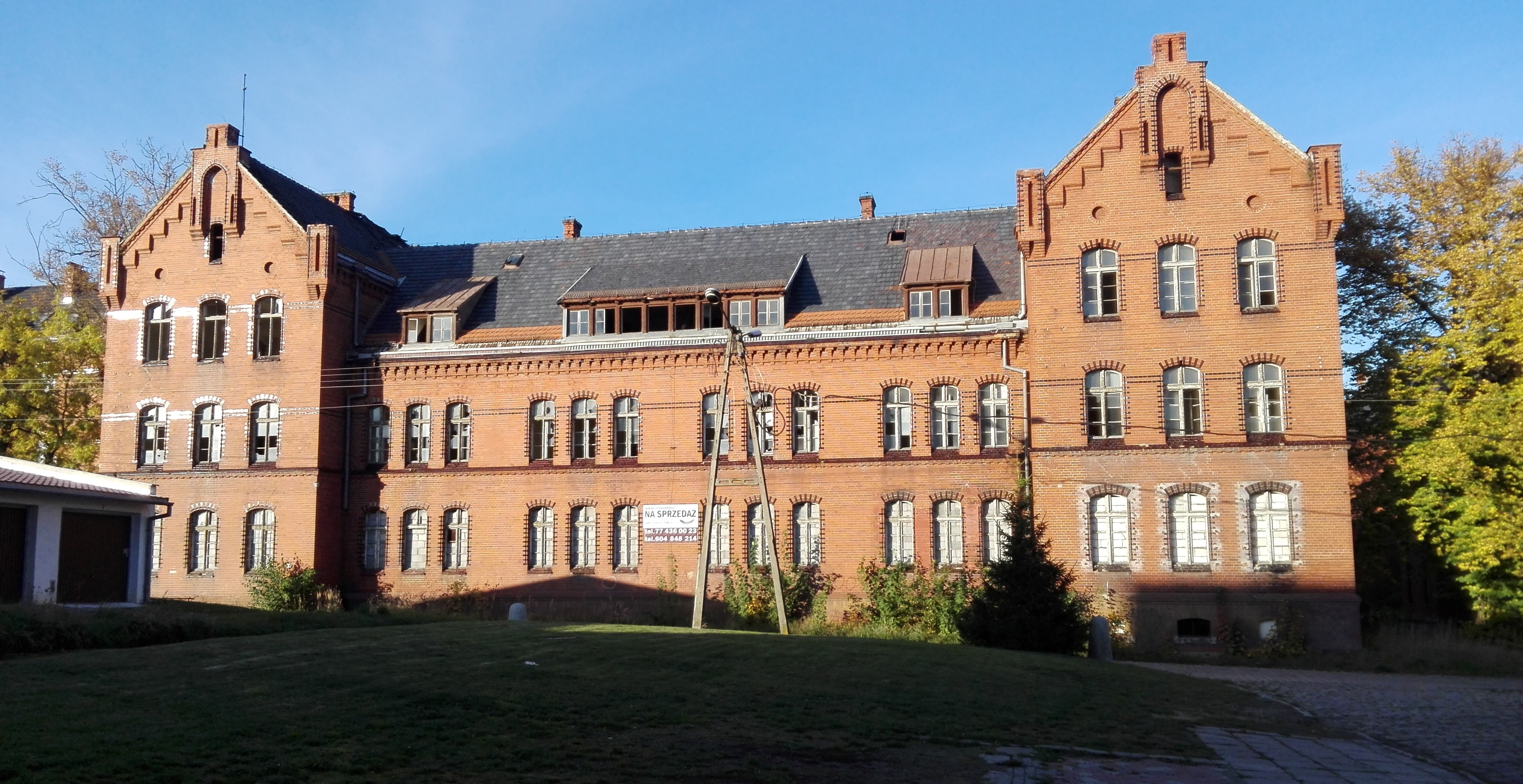 Włoska Street in Prudnik